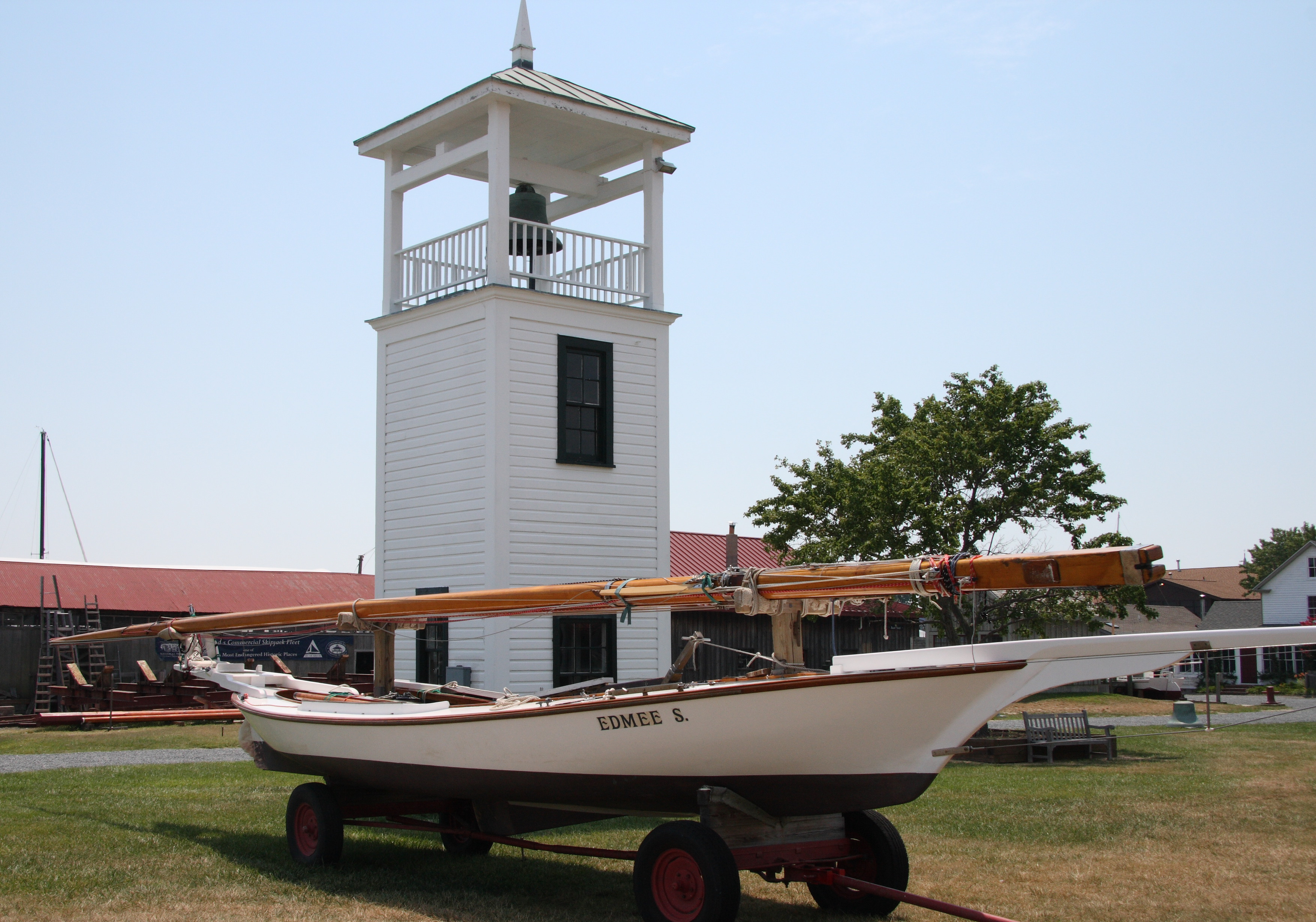 Chesapeake Bay log canoe Edmee S. with the Point Lookout Tower in the background at the Chesapeake Bay Maritime Museum, Saint Michaels, Maryland